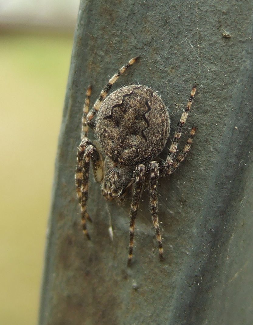 Larinioides ixobolus